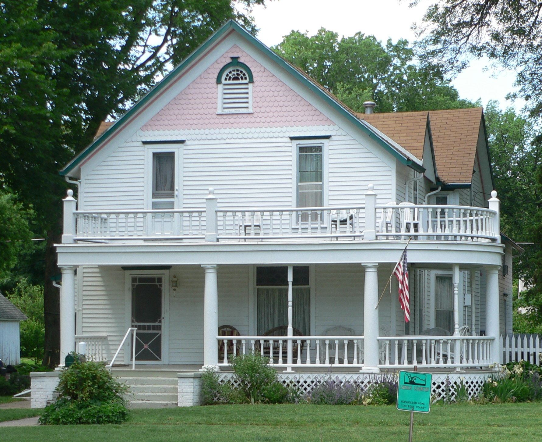 Warner-Cather House in Red Cloud, Nebraska; seen from the east. The house is listed in the National Register of Historic Places. It is currently operated as a bed-and-breakfast.